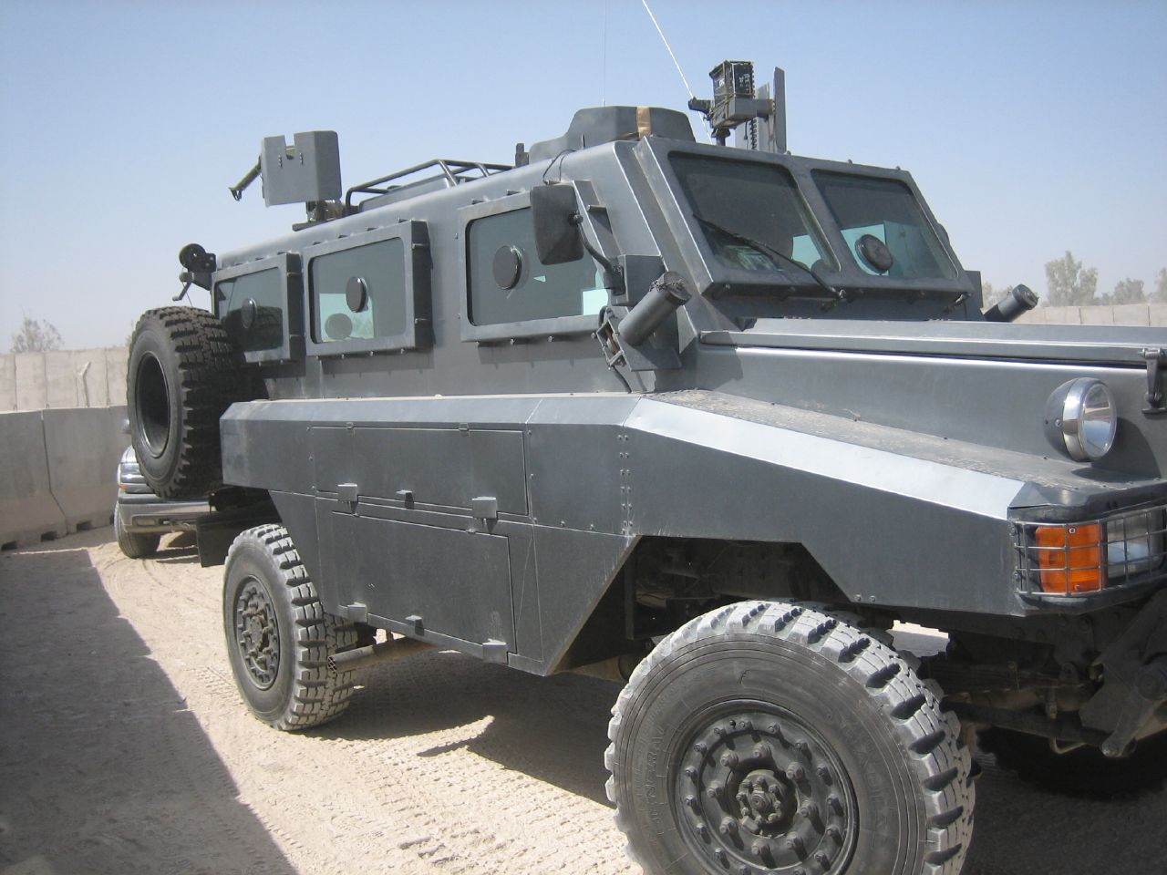 A Reva 4x4 APC at Camp Victory, Iraq This vehicle is a REVA APC made by the South African company Integrated Convoy Protection (Pty) Ltd.